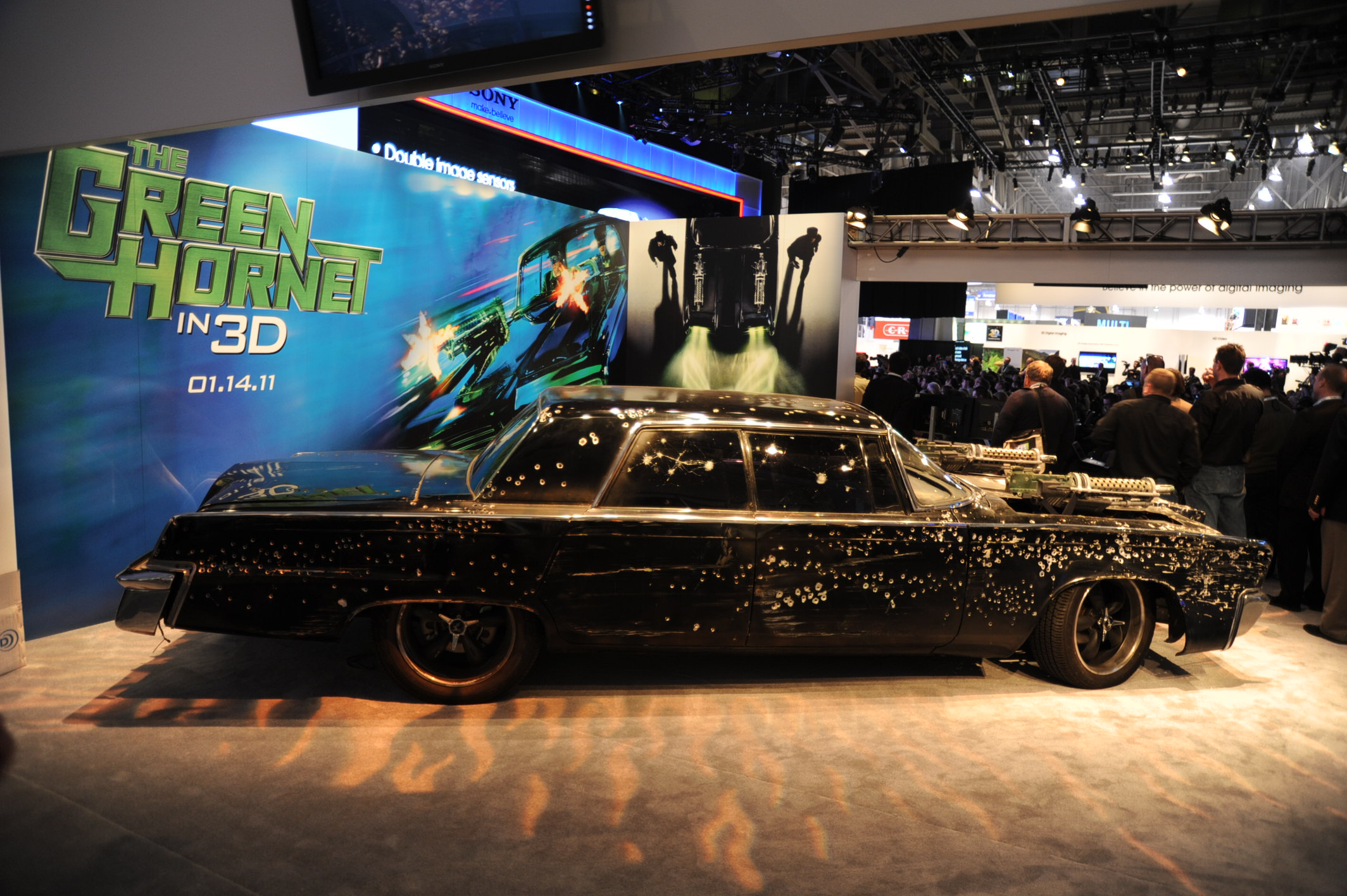 "Black Beauty" car of "The Green Hornet" movie at the Sony Press Conference